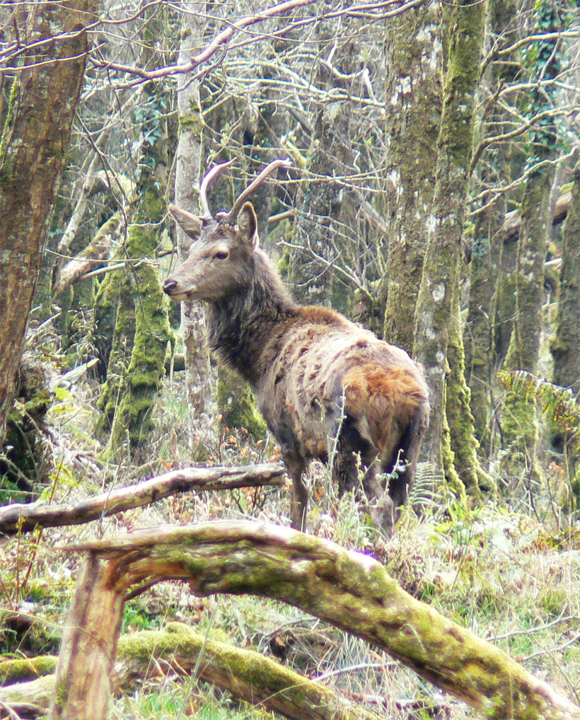 A young male red-deer (Cervus elaphus) in Killarney National Park, Ireland. Taken in an oak-forested part of the park near public roads.Young-Buck